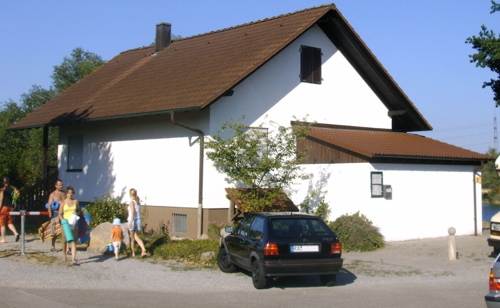 Club house of "ASV Ottersdorf" in Ottersdorf, part of Rastatt, Germany